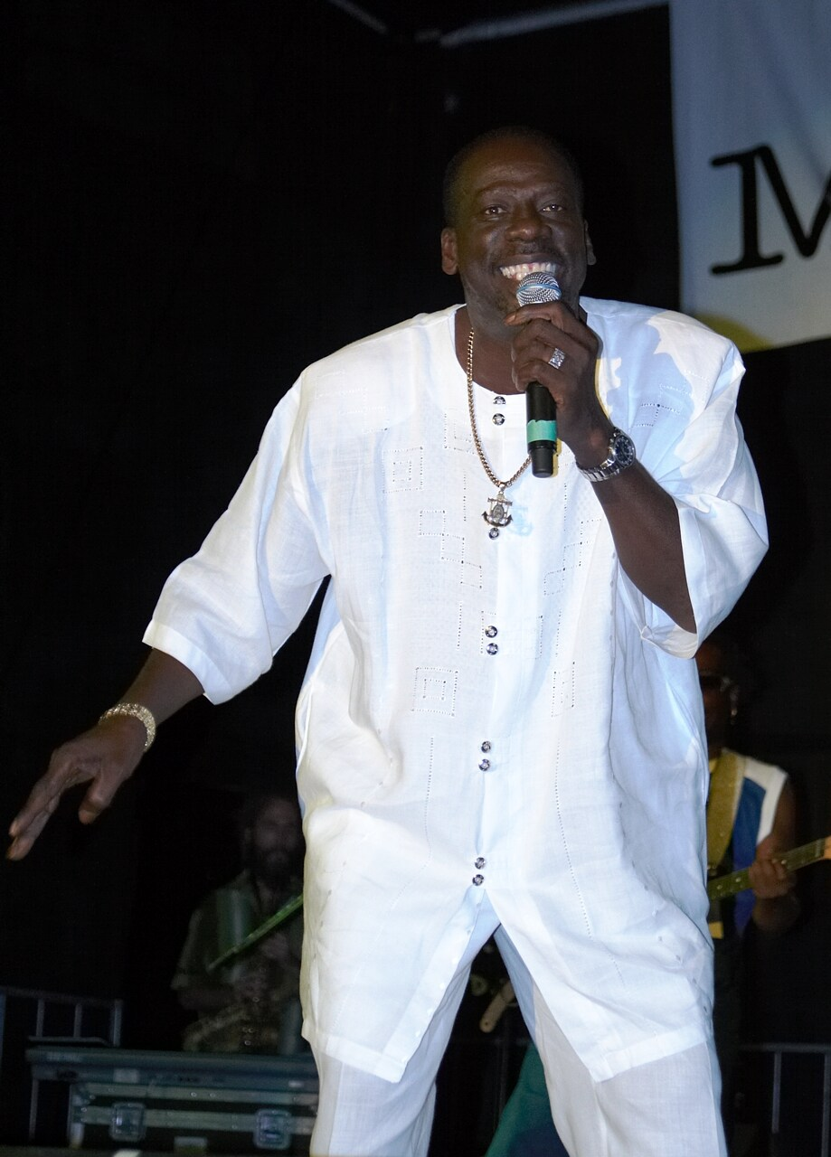 Leroy Sibbles opens the 2006 Caribana festivities and Irie music festival in Nathan Phillips Square, Toronto.